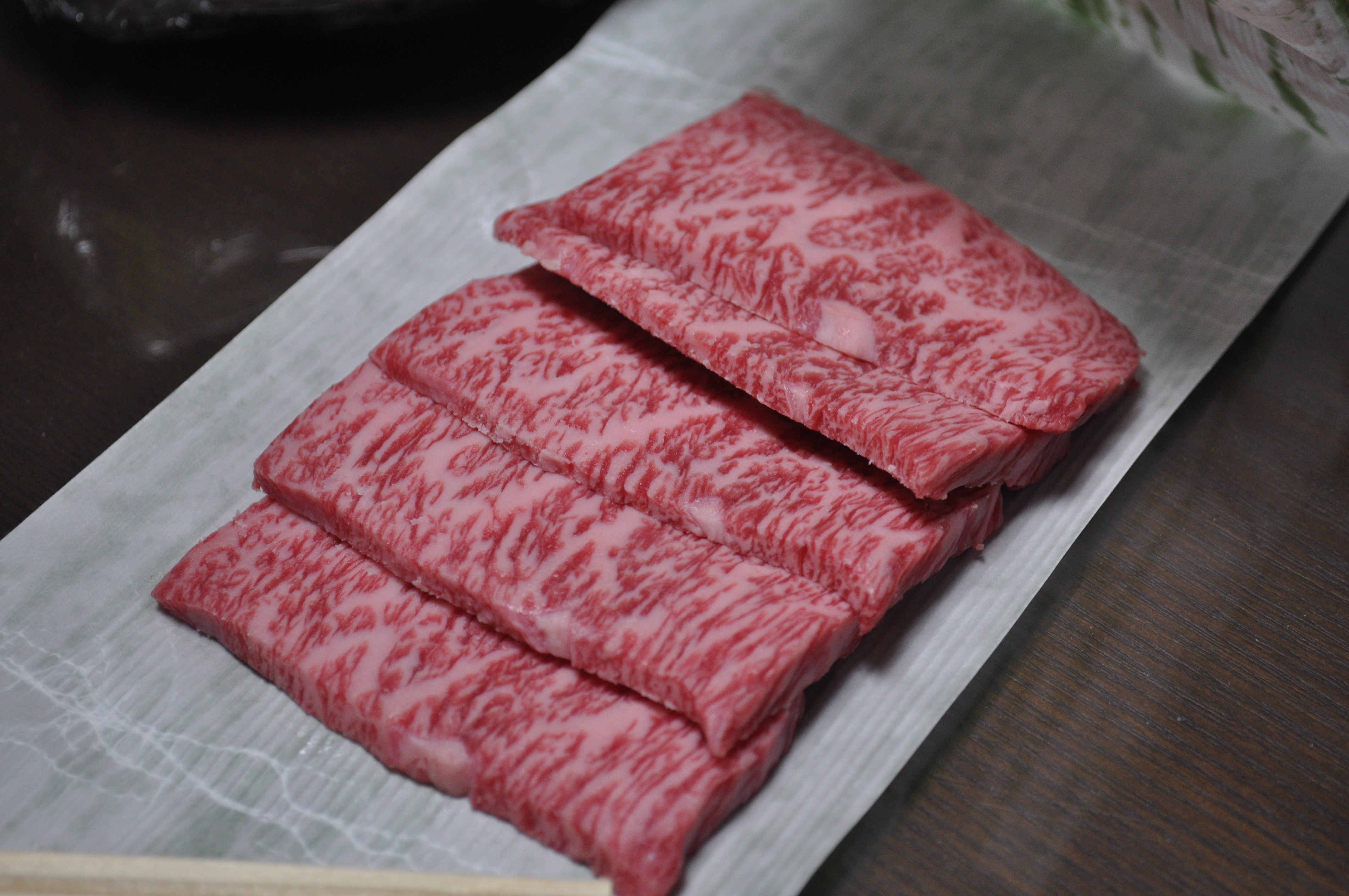 Matsusake wagyu beef.